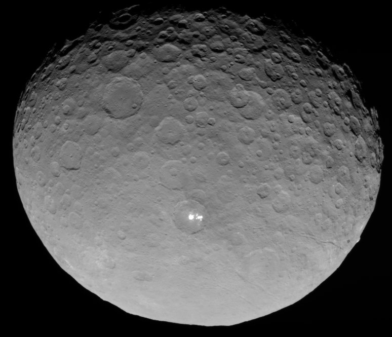 PIA19547: Ceres RC3 Animation - Still Frame 25 UPLOADER NOTE: Frame 25 of the original GIF animation (16.096KB) - via JASC Animation Shop v 2.02. In this closest-yet view of Ceres, the brightest spots within a crater in the northern hemisphere are revealed to be composed of many smaller spots. This frame is from an animation of sequences taken by NASA's Dawn spacecraft on May 4, 2015. This animation shows a sequence of images taken by NASA's Dawn spacecraft on May 4, 2015, from a distance of 8,400 miles (13,600 kilometers), in its RC3 mapping orbit. The image resolution is 0.8 mile (1.3 kilometers) per pixel. In this closest-yet view, the brightest spots within a crater in the northern hemisphere are revealed to be composed of many smaller spots. However, their exact nature remains unknown. Dawn's mission is managed by JPL for NASA's Science Mission Directorate in Washington. Dawn is a project of the directorate's Discovery Program, managed by NASA's Marshall Space Flight Center in Huntsville, Alabama. UCLA is responsible for overall Dawn mission science. Orbital ATK, Inc., in Dulles, Virginia, designed and built the spacecraft. The German Aerospace Center, the Max Planck Institute for Solar System Research, the Italian Space Agency and the Italian National Astrophysical Institute are international partners on the mission team. For a complete list of acknowledgements, visit For more information about the Dawn mission, visit